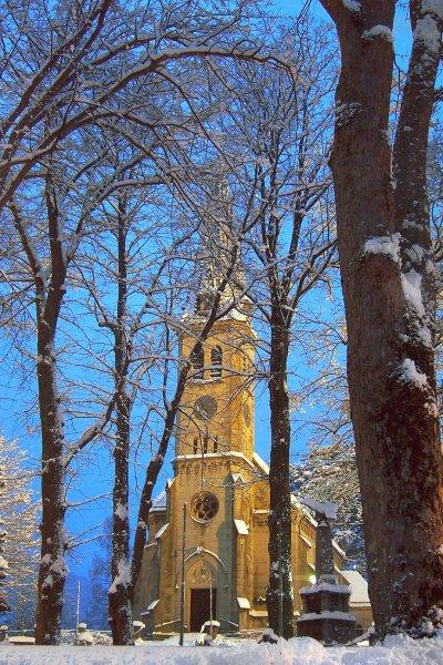 ensemble of nature and neo-gothic architecture, "a holy grove" in front of the church or "church behind trees"